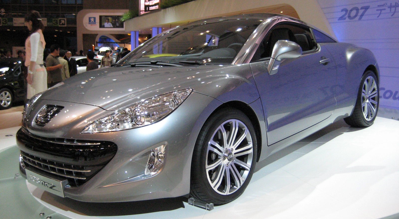 Peugeot 308 RC Z in Tokyo Motor Show 2007